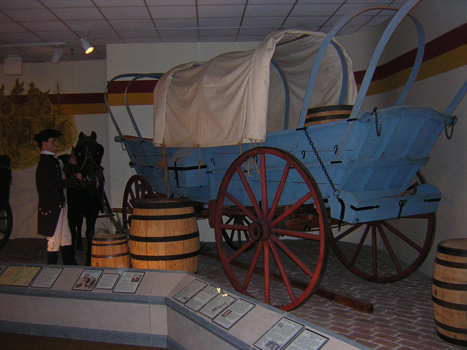 a transport wagon, possibly a conestoga, a diorama display at the U.S. Army Transportation Museum, Fort Eustis, Virginia This exhibit is located in the indoor exhibits area (E on map, see key).